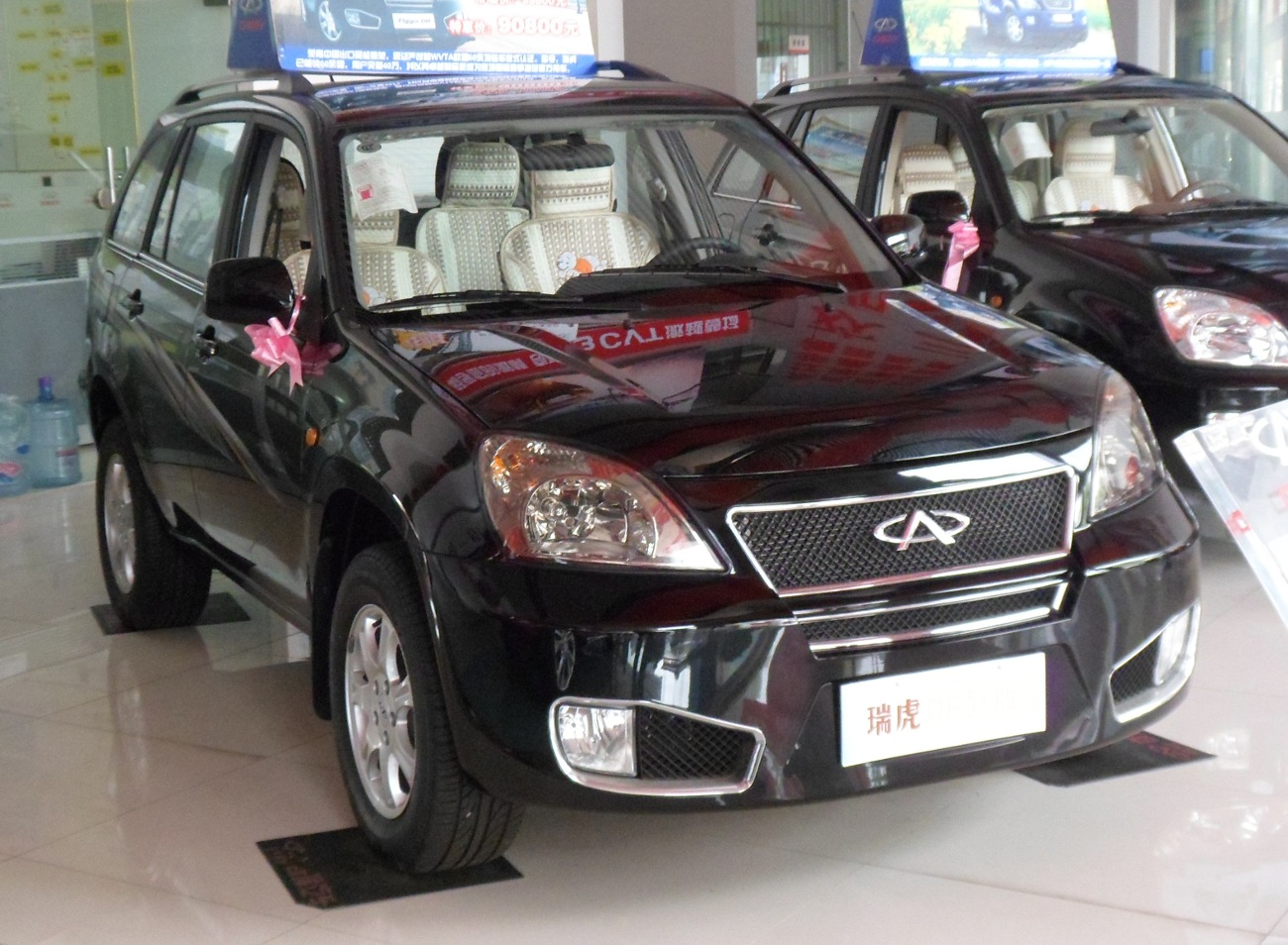 Chery Tiggo DR photographed in Shanghai, China.